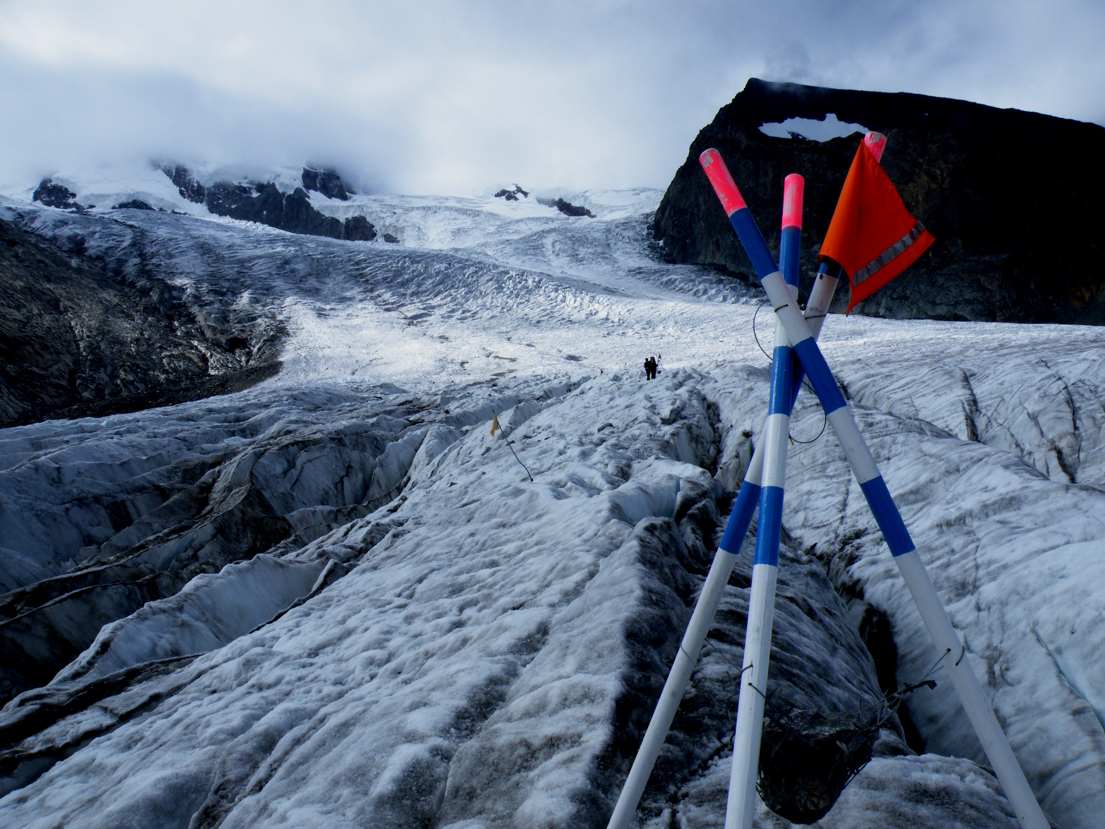 Gorner Gletscher Glacier, Switzerland